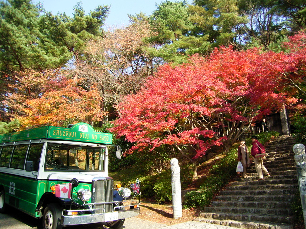 Niji-no-sato Shuzenji Shizuoka Japan